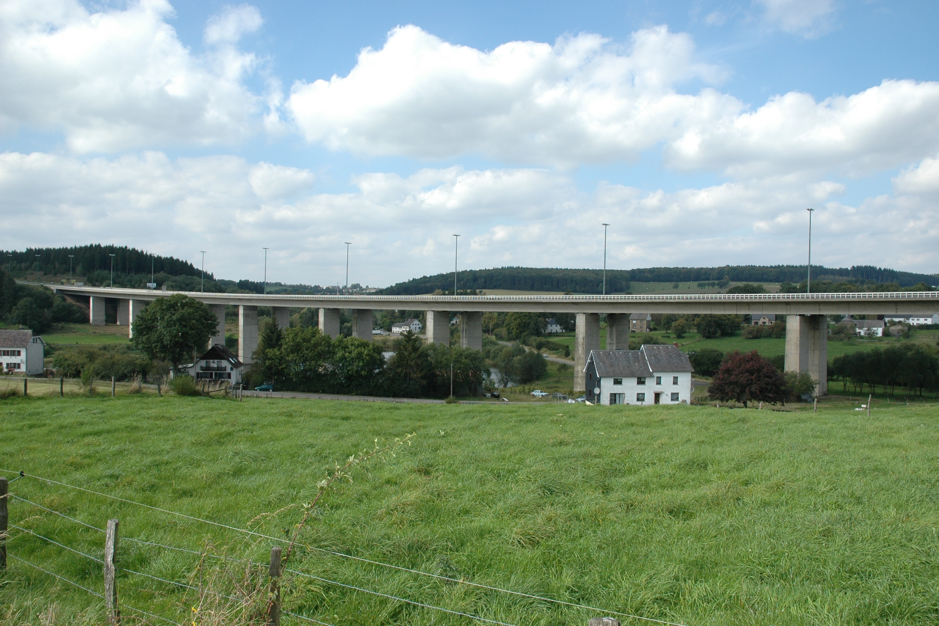 Viaduct Breitfeld on A27 in Belgium